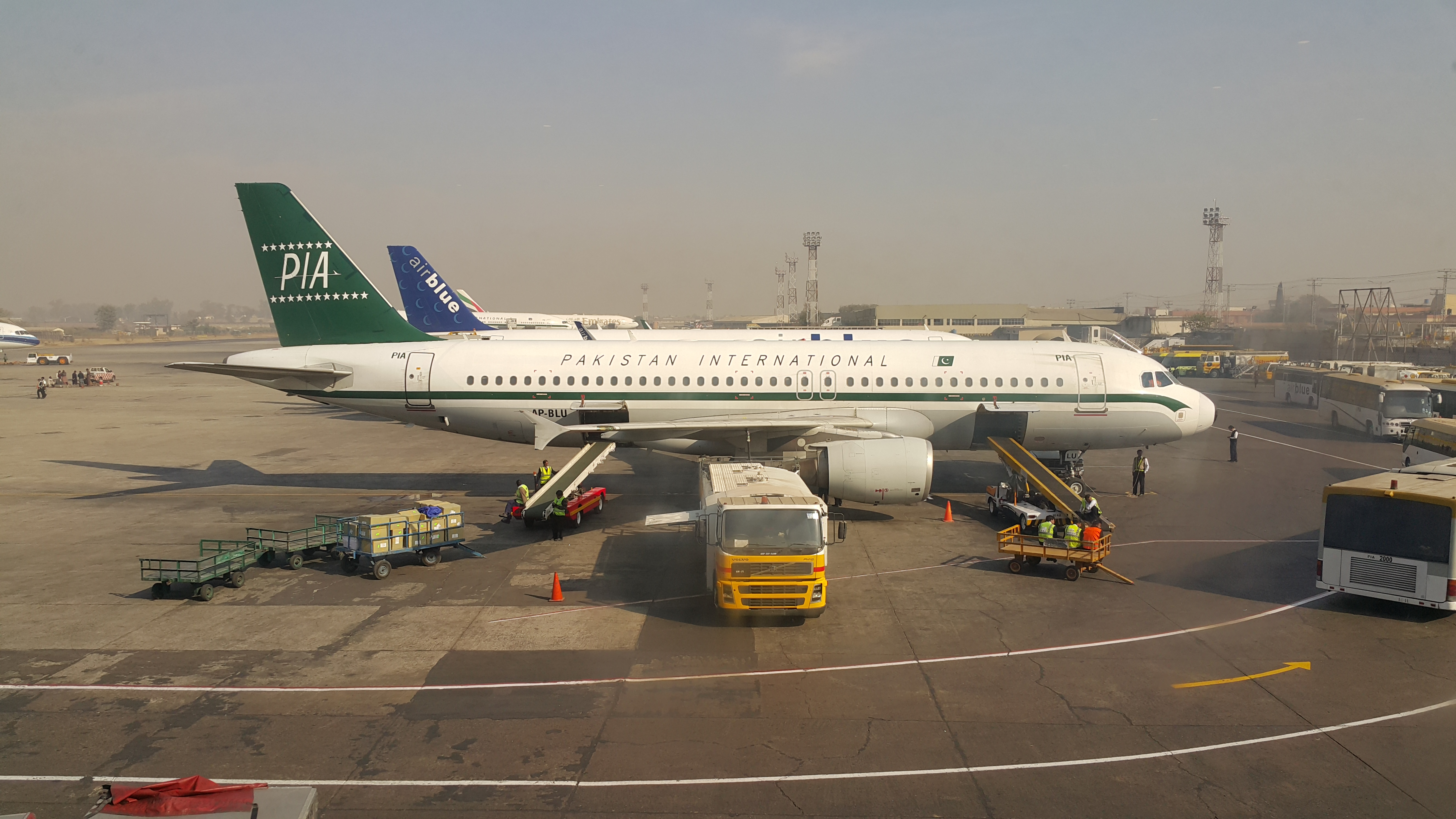 PIA and Airblue Fleet as seen from waiting Lounge of Islamabad Airport. PIA old Boeing Plane.